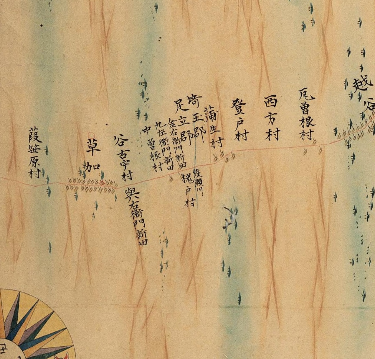 National Diet Library Digital Collection This image is available from the website of the National Diet Library This tag does not indicate the copyright status of the attached work. A normal copyright tag is still required. See Commons:Licensing for more information. English | 日本語 | +/−